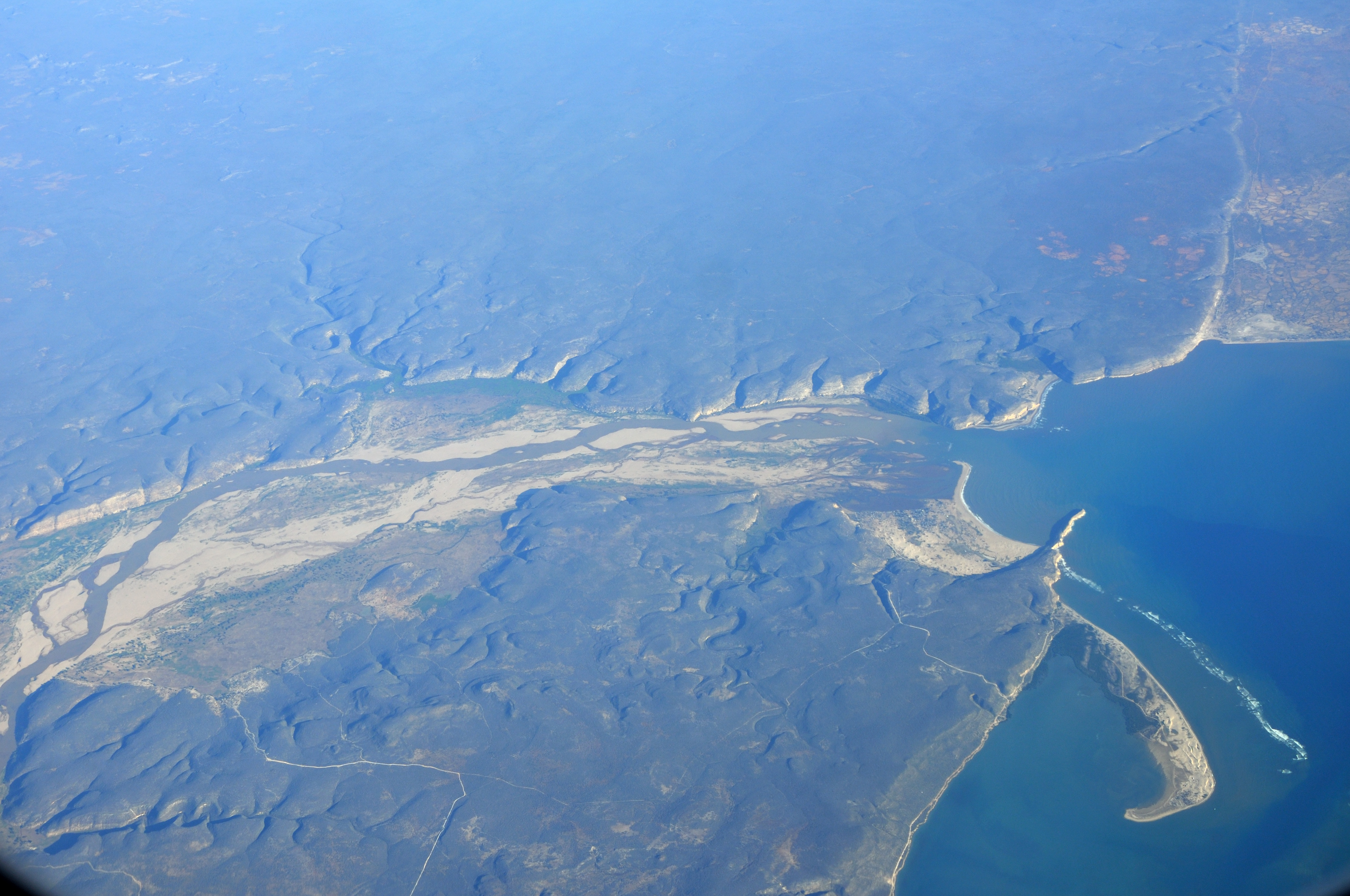 Madagascar, View overhead Andranomena